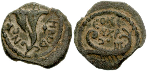 HERODIAN KINGS of JUDAEA. Herod Archelaus. 4 BCE - 6 CE. Æ Prutah (17mm, 2.72 g, 9h). Jerusalem mint. HPWDOU, double cornucopiae / Galley left, EQNARCOU (retrograde) below. Meshorer 70; RPC I 4914; Hendin 503. Good VF, dark green patina with light earthen encrustation.